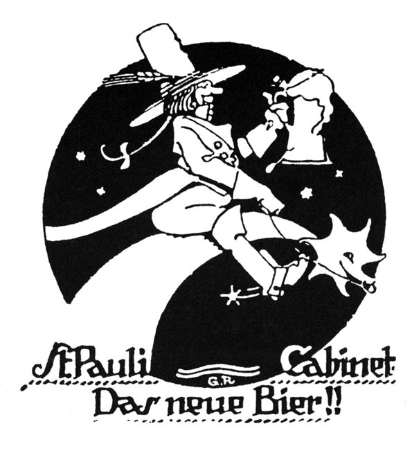 Advertisement from the year 1910 for the beer brand Cabinet from the St. Pauli Brauerei (the “St. Pauli Brewvery”) in Bremen, Germany: “St. Pauli Cabinet – the new beer”)